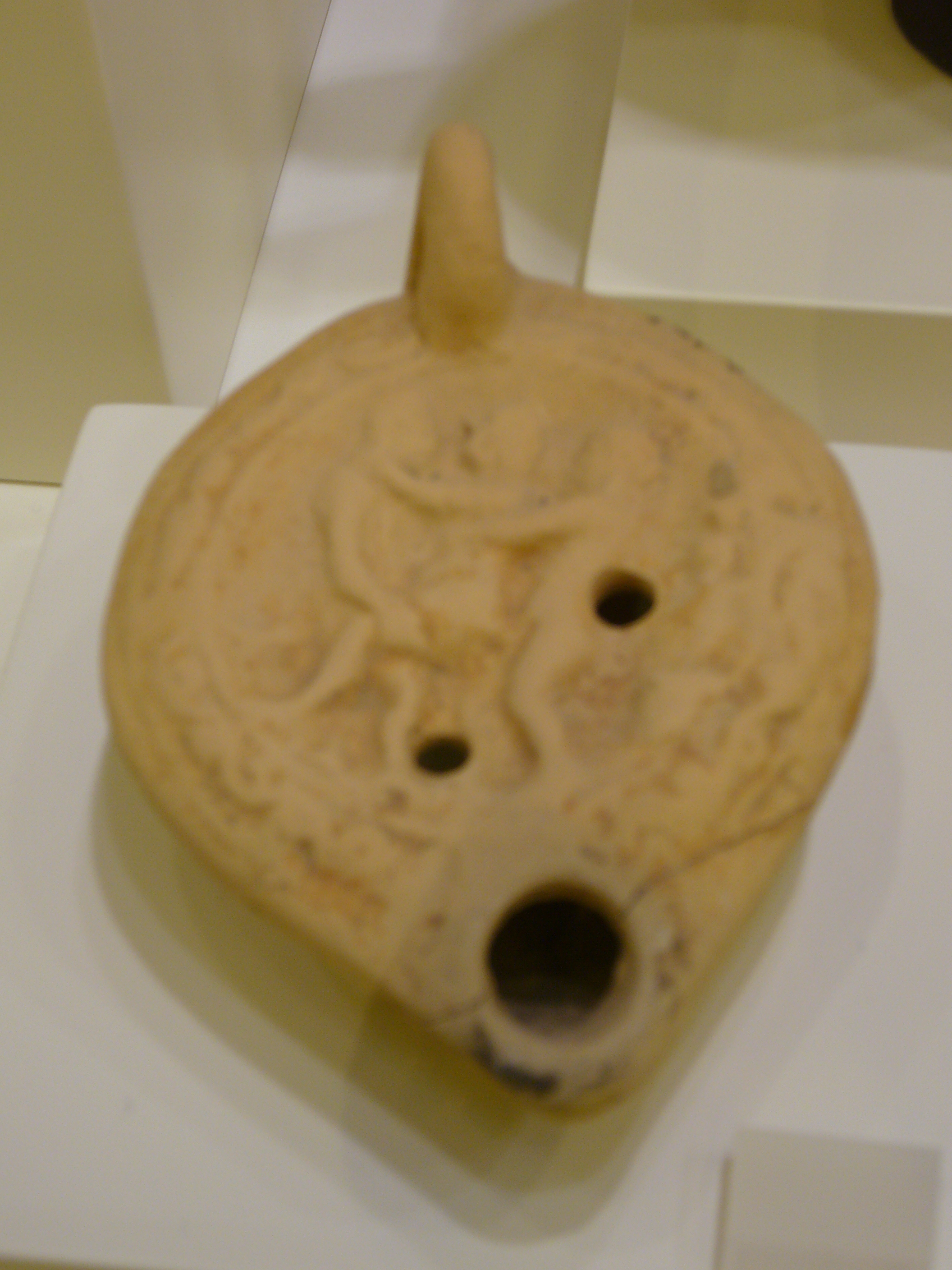 Ancient Roman oil lamp (circa 1st Century AD) showing woman having sexual intercourse with two men simultaneously.